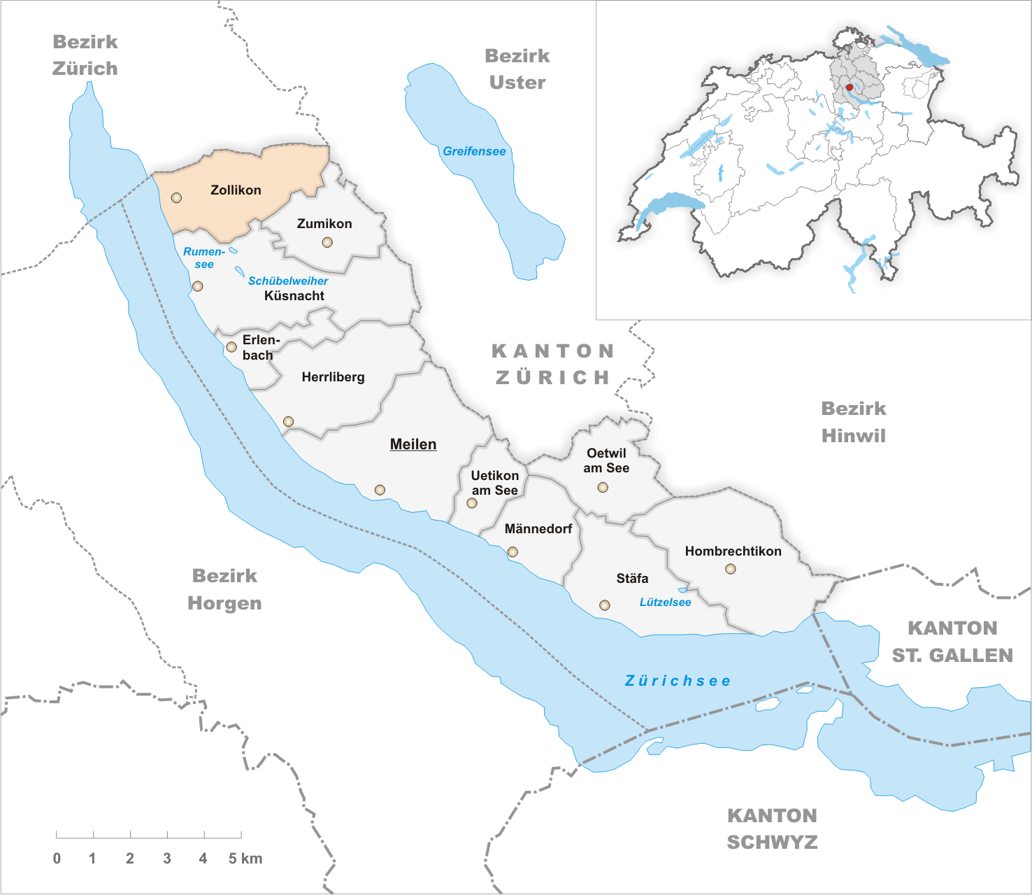 Municipality Zollikon